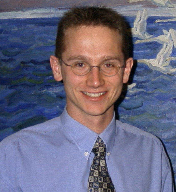 Danish Minister of Taxation and member of parliament Kristian Jensen